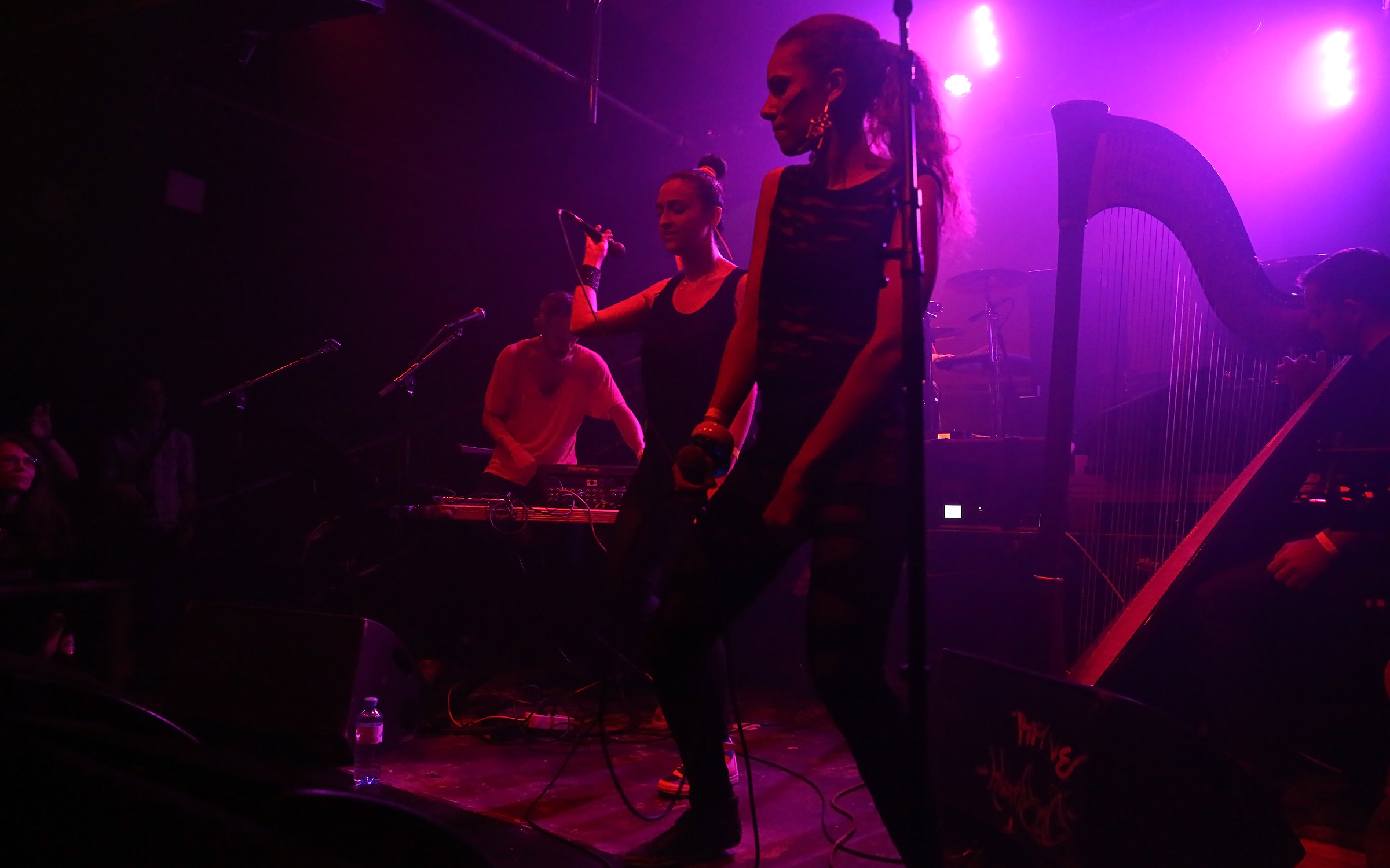 I-Wolf and The Chainreactions, concert at Fluc, Waves Vienna Music Festival & Conference 2013 in Vienna.